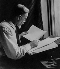 Edwin George Lutz At Work